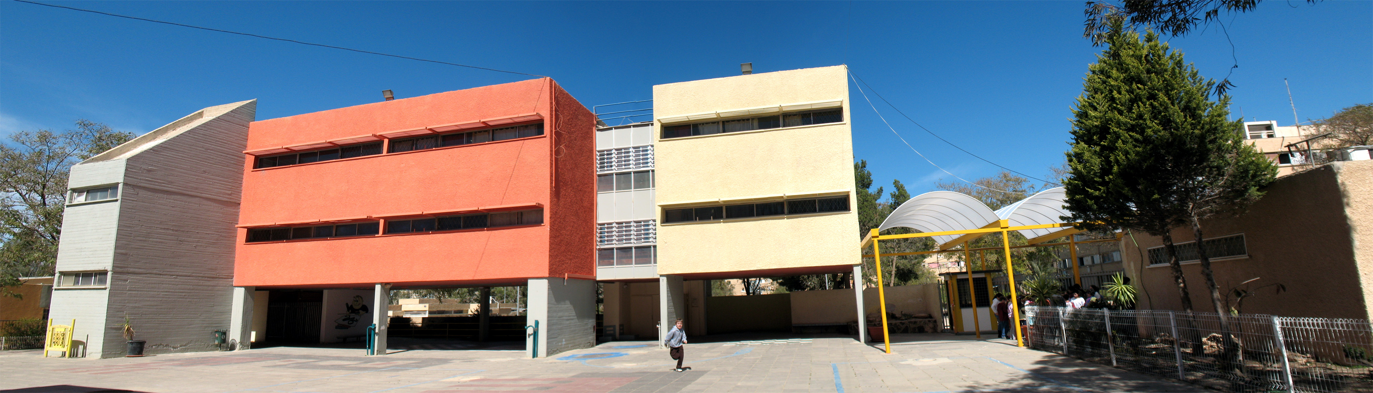 Avishur elementary school in Arad, Israel - main building facing Hen St.